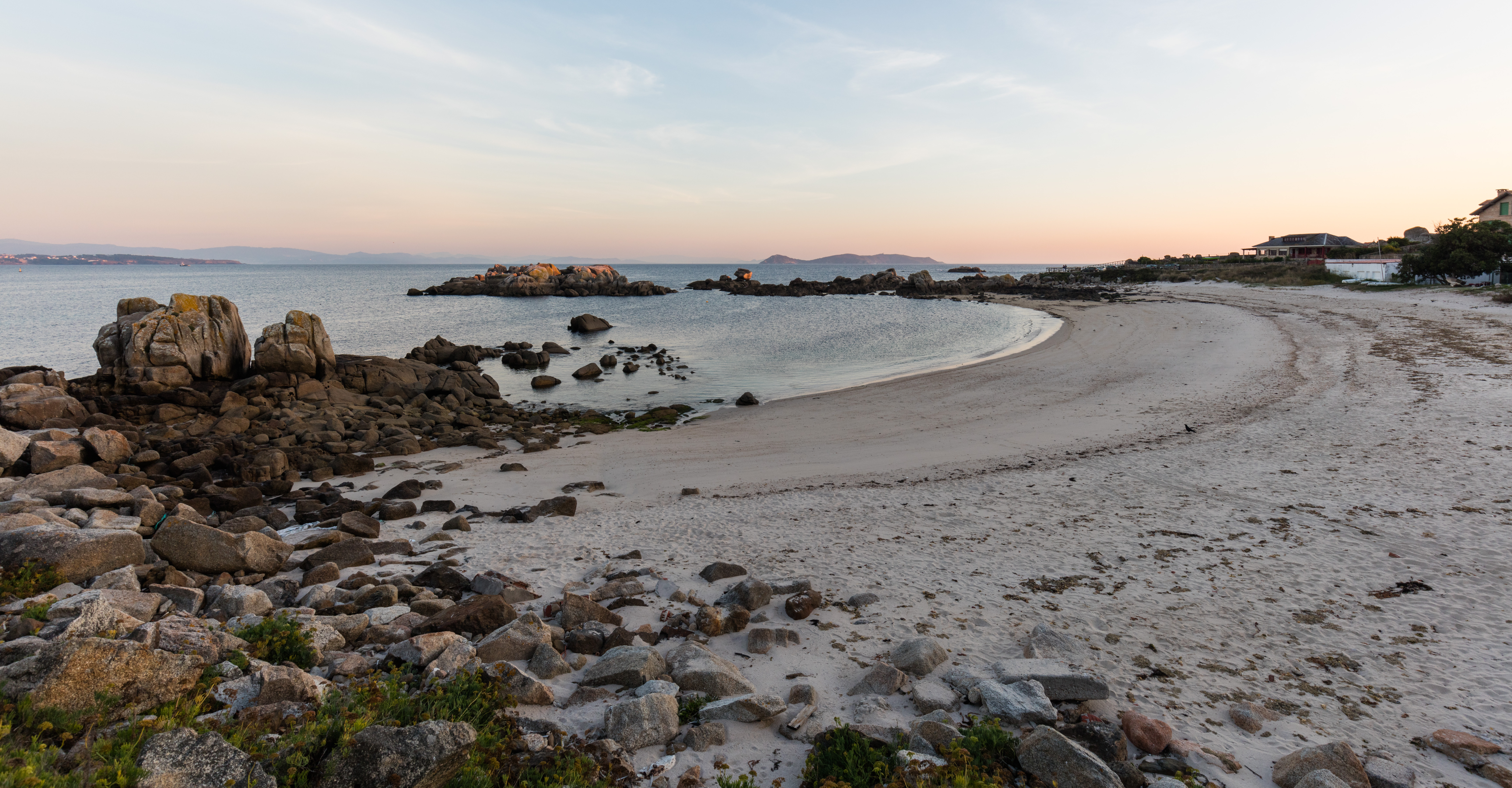 Coast of St Vicente, El Grove, Pontevedra, Spain